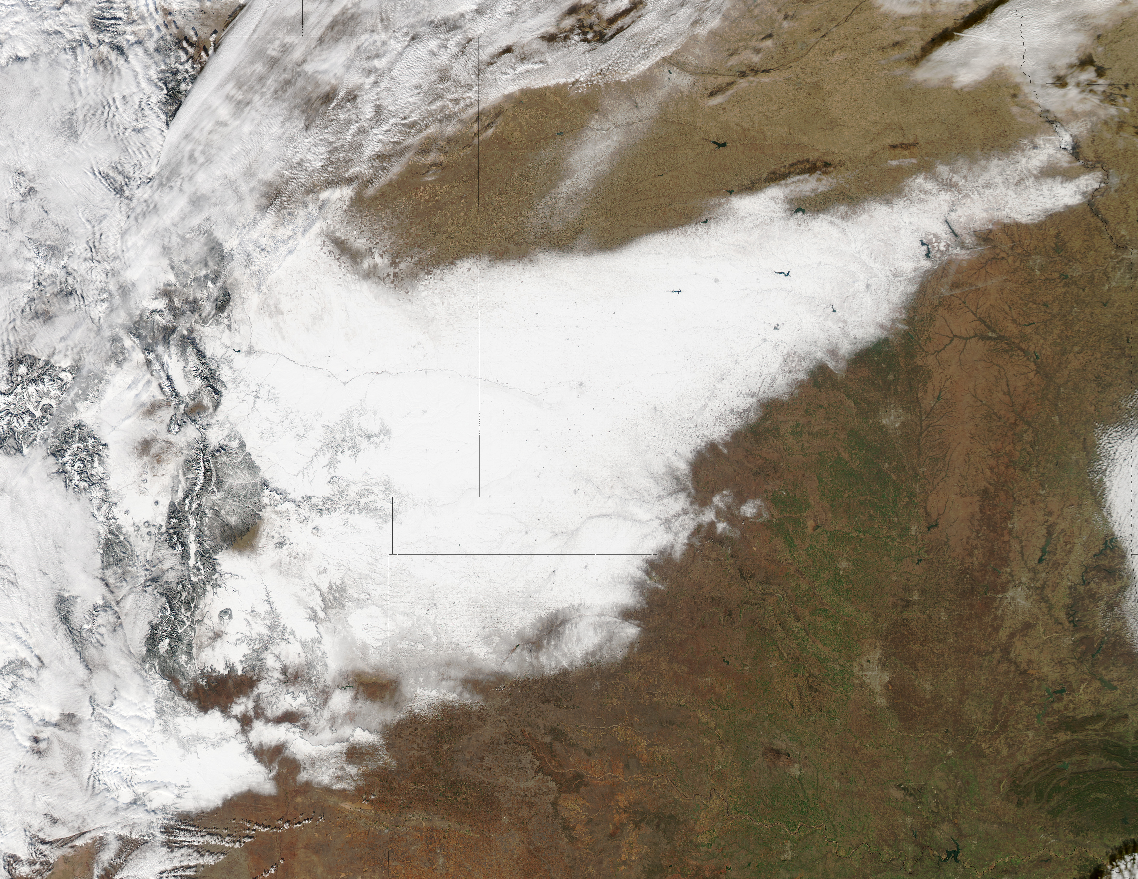 Snow across the Central United States on December 21, 2011